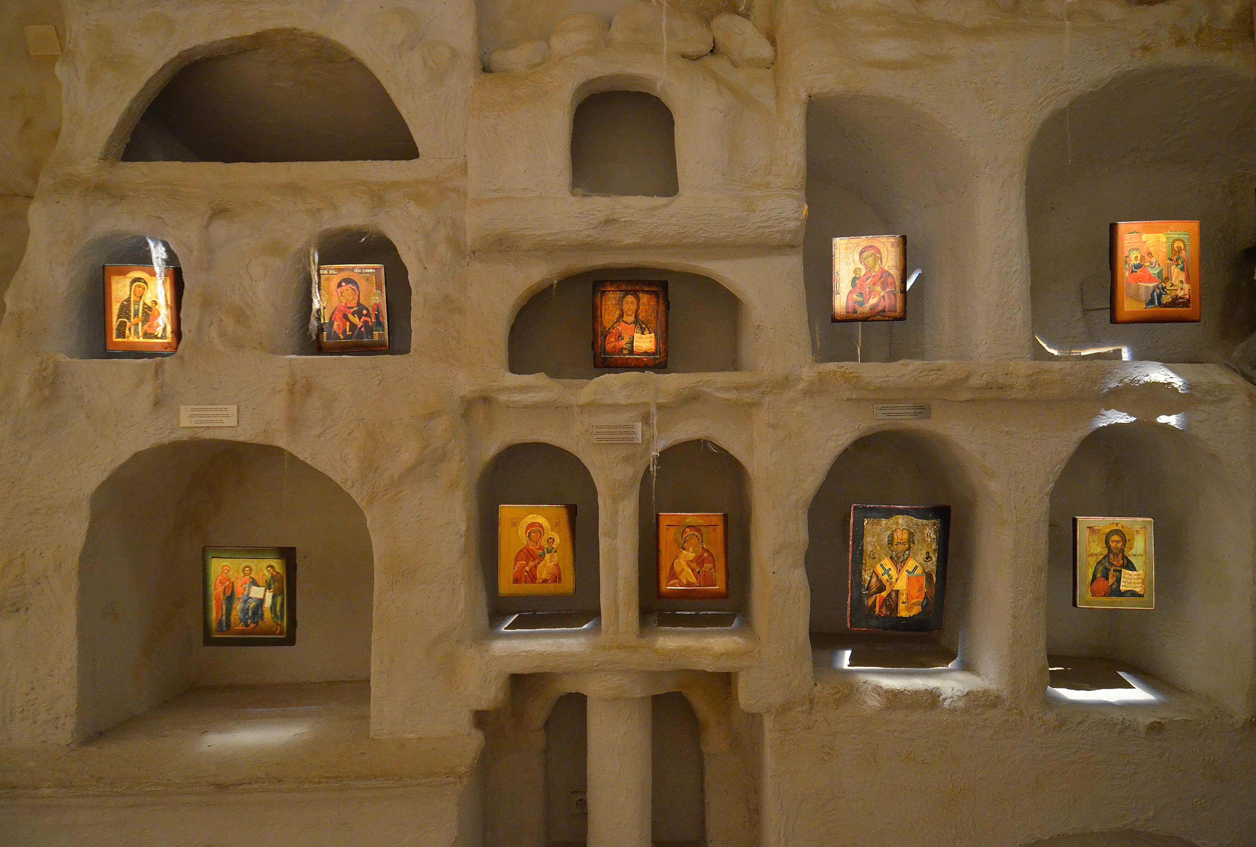 Icons Museum in Supraśl